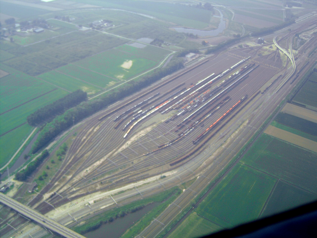 Classification yard Kijfhoek, The Netherlands, seen from 1,000 feet height. Hump is at right upper corner. Construction work for the Betuweroute almost finished at that time (2006).